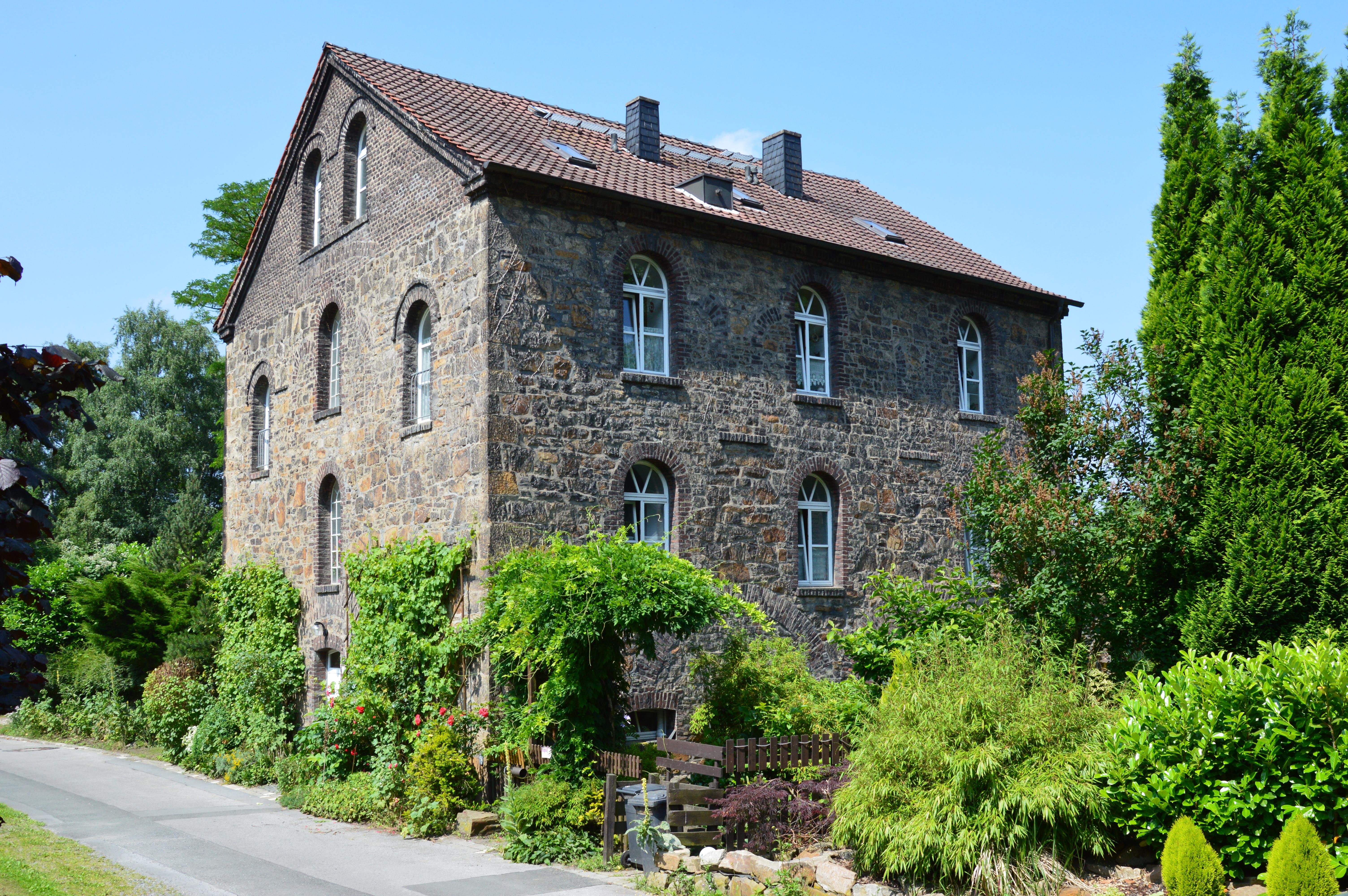 mine Zeche Wallfisch in Witten